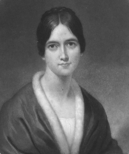 Illustration of American poet Frances Sargent Osgood.